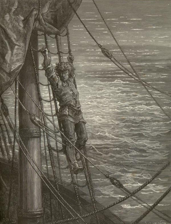 Engraving by Gustave Doré for an 1876 edition of Samuel Taylor Coleridge's The Rime of the Ancient Mariner. Captioned "So lonely," it depicts sailor on ratlines of sailing ship.